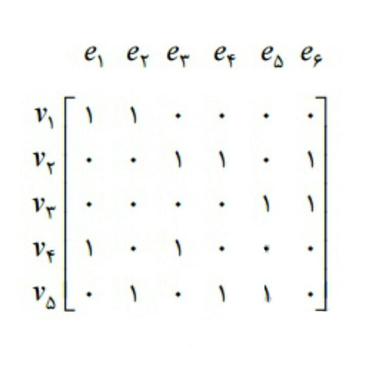 mat.image